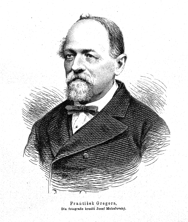 Portrait of František Gregora (1819-1887), Czech composer